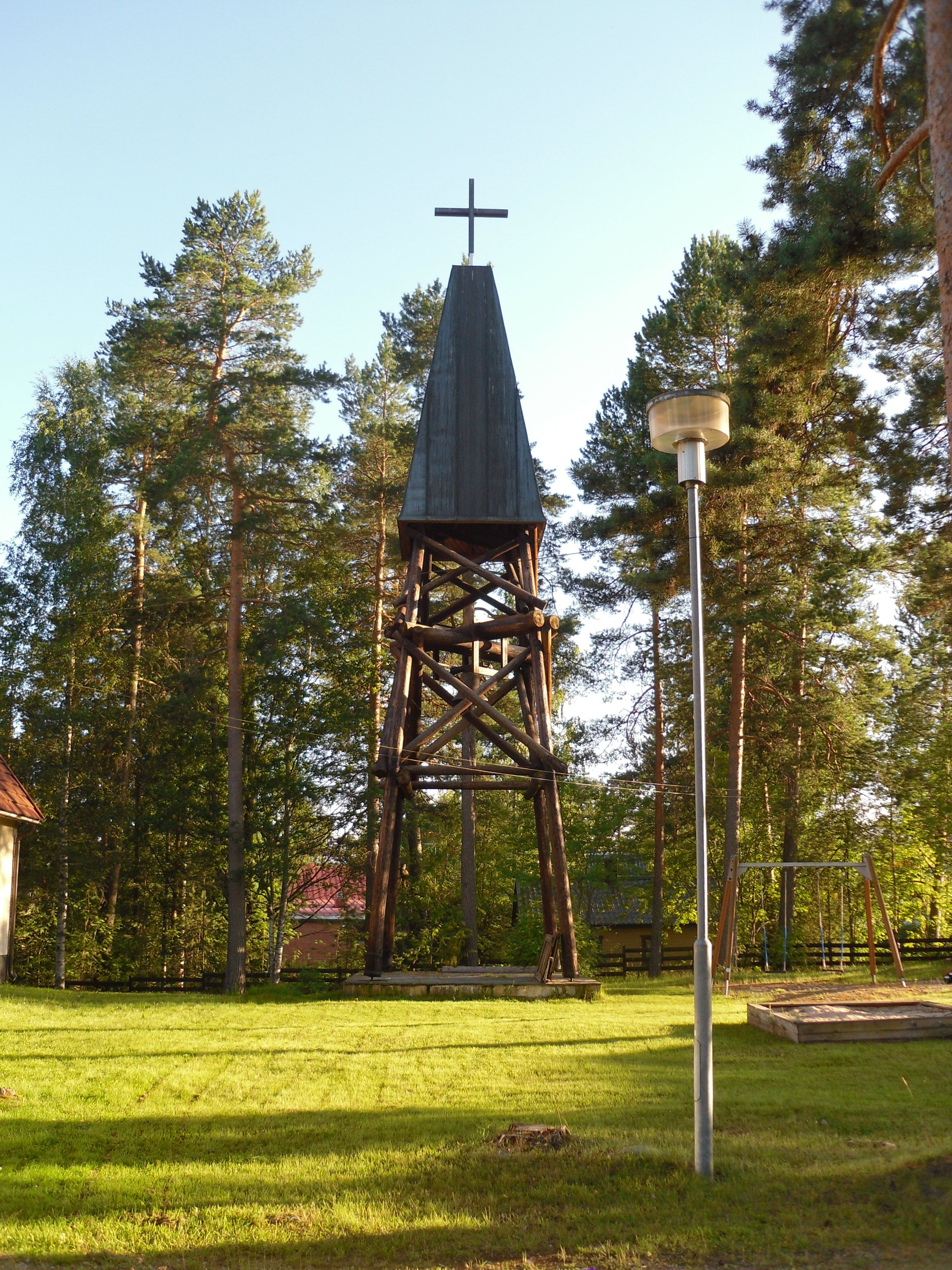 Belltower beside Kolho church